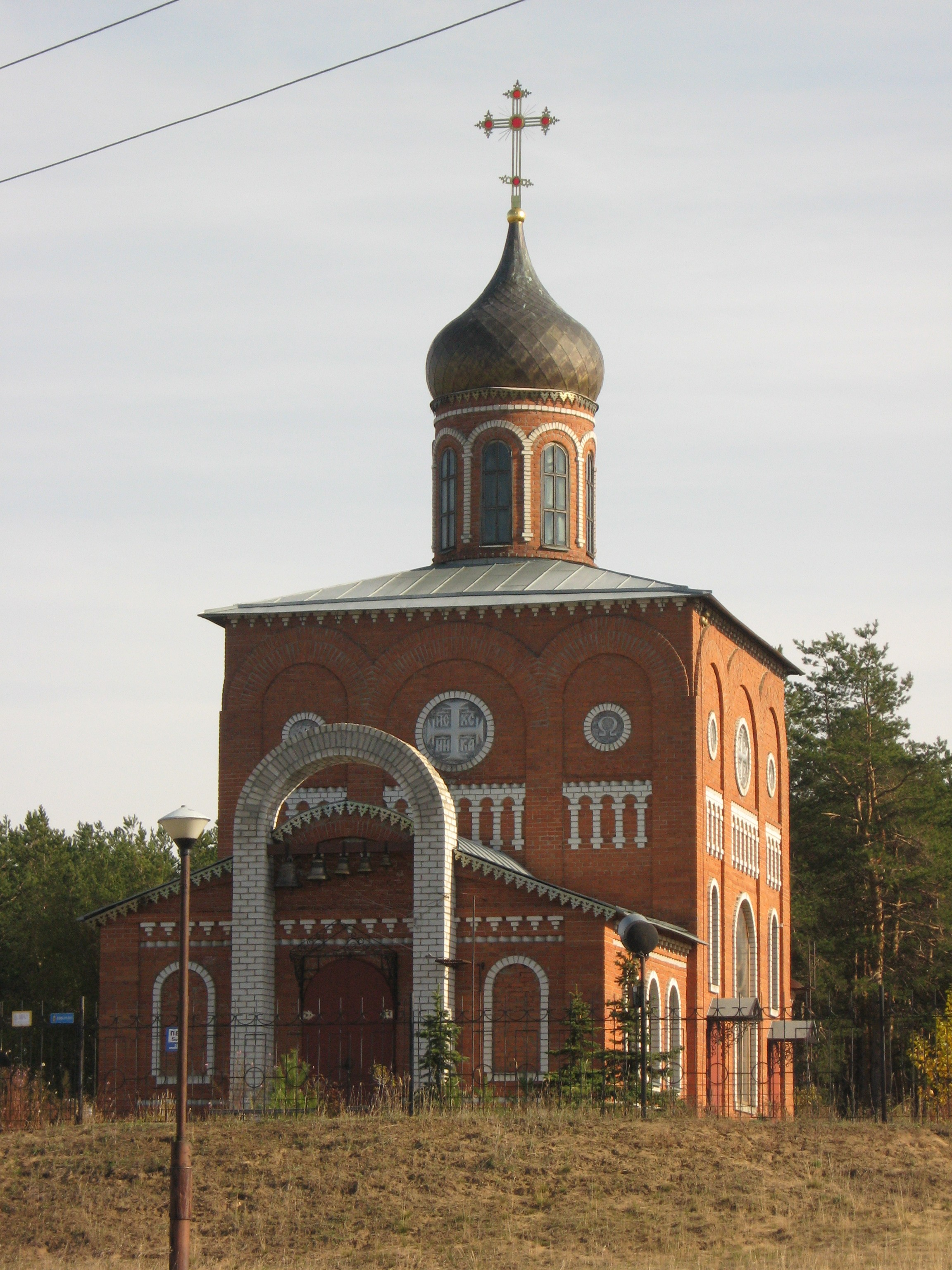 The Church of St. Nicholas in Sosnovka (Cheboksary), 2010